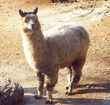 alpaca